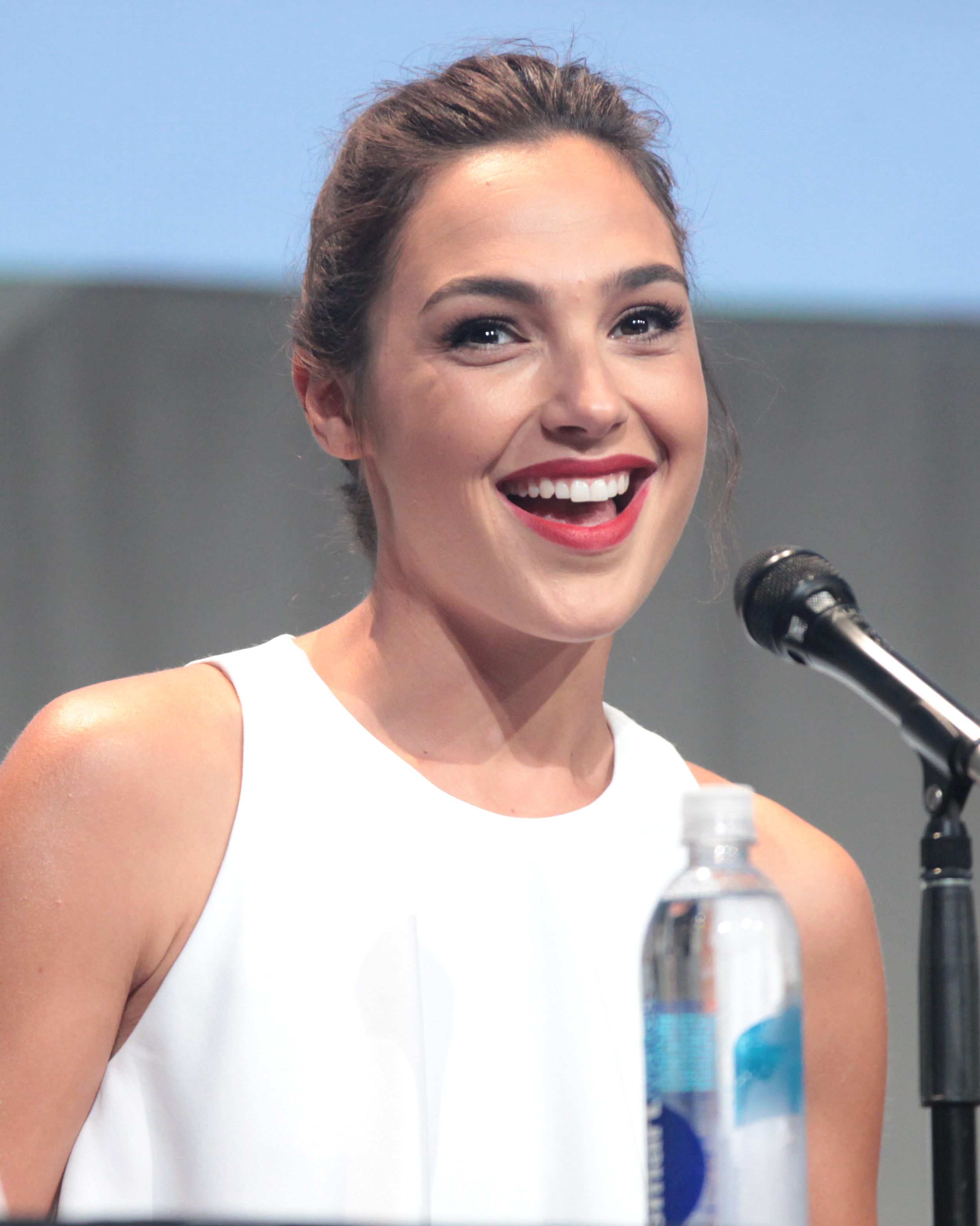 Gal Gadot speaking at the 2015 San Diego Comic Con International, for "Batman v Superman: Dawn of Justice", at the San Diego Convention Center in San Diego, California.